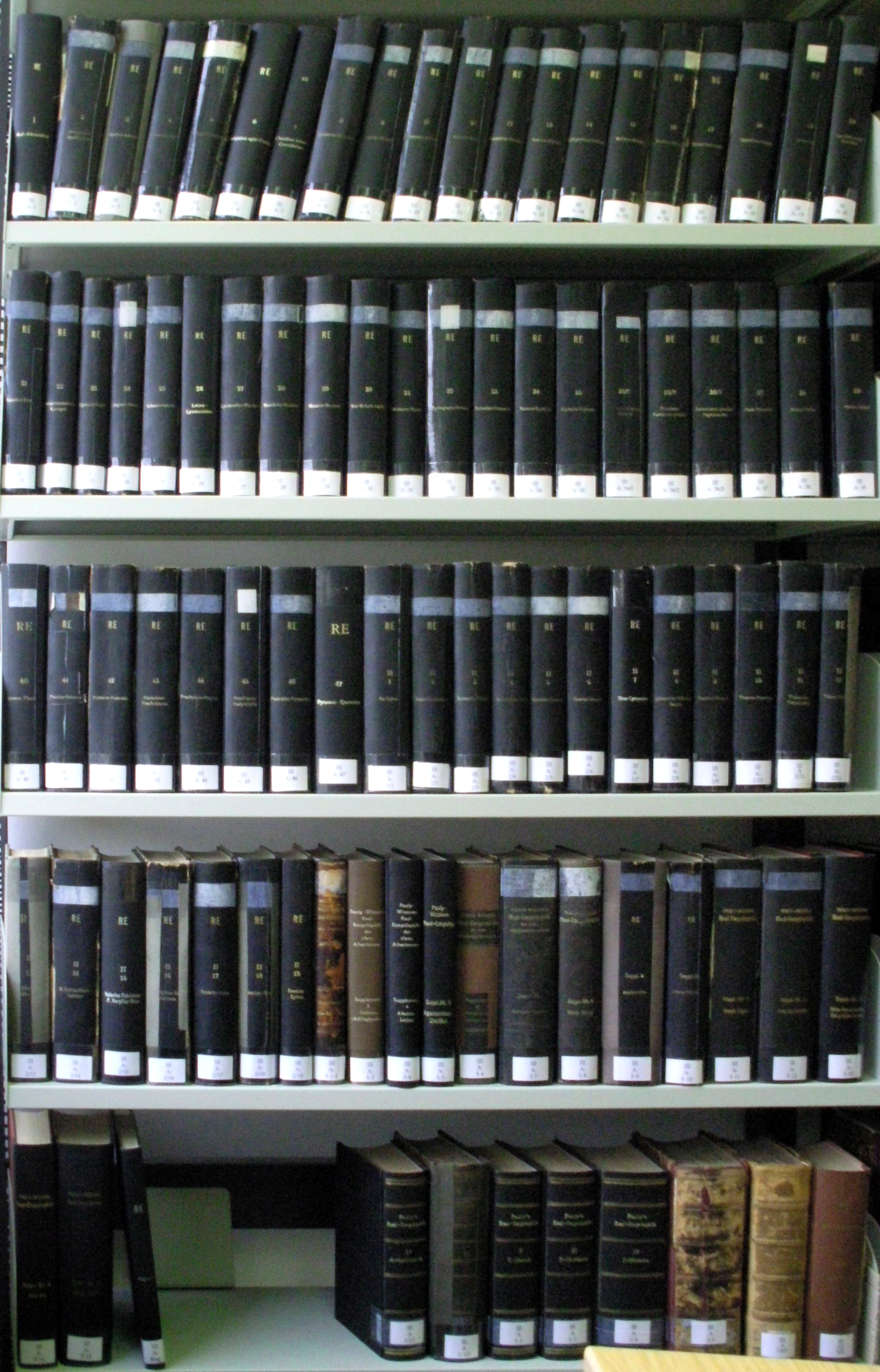 The Realencyclopädie (RE, 1893–1980) fills an entire bookcase in the library of the University of Göttingen's Seminar for Classical Philology. At the lower right are eight volumes of the encyclopedia's earlier edition (1837–1864).